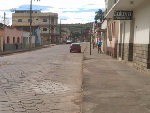 Street View Sao Joao del Rei, in the neighborhood Vargem Andrelândia - Minas Gerais, Brazil.